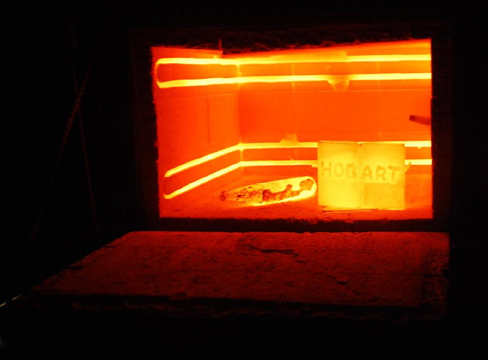 Pictures inside of a heat treating furnace. Temperature inside is 1,800 degrees F, or 982C. Picture taken at night to increase prominence of heated parts.